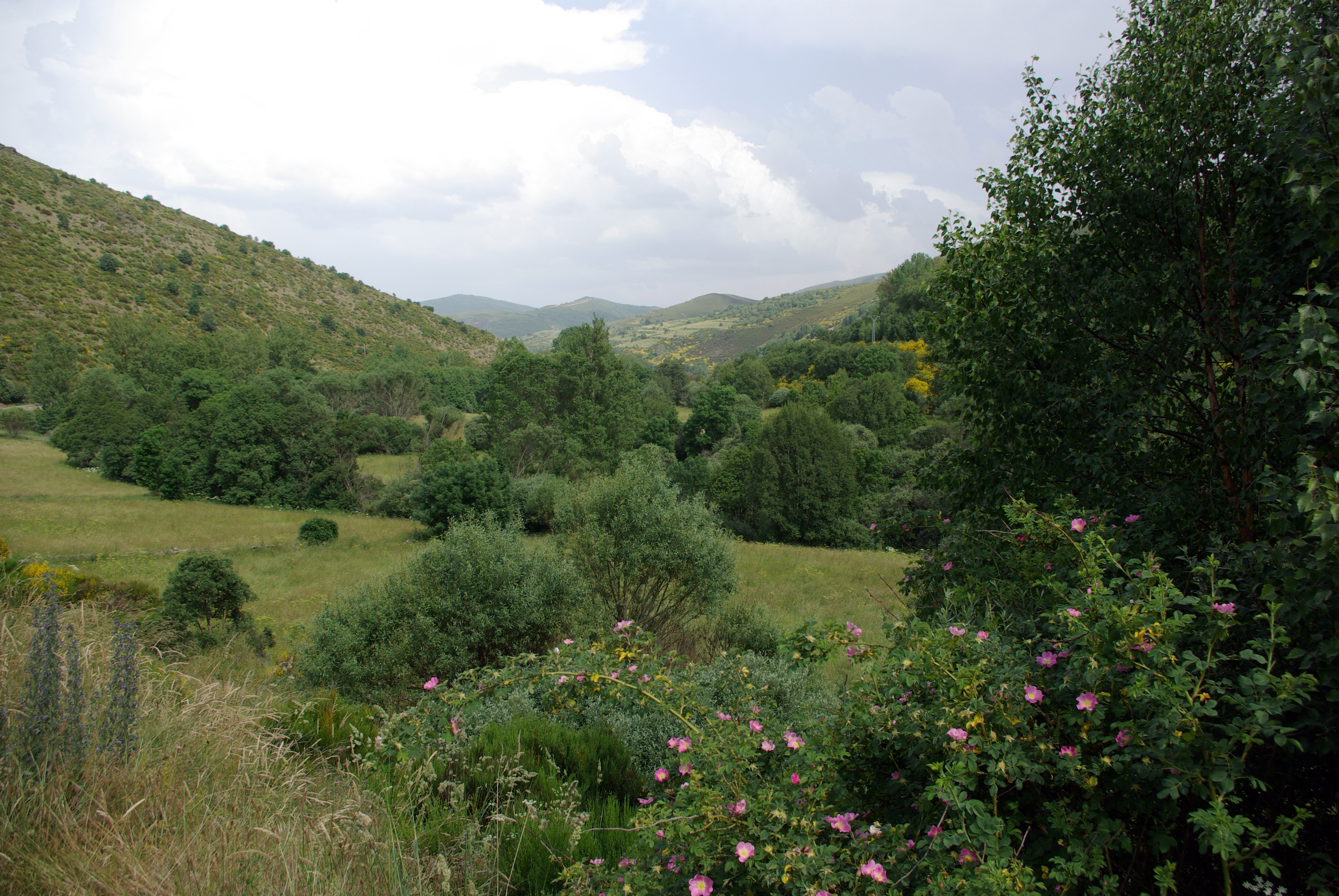 Valle Gordo valley (Murias de Paredes, León, Spain)